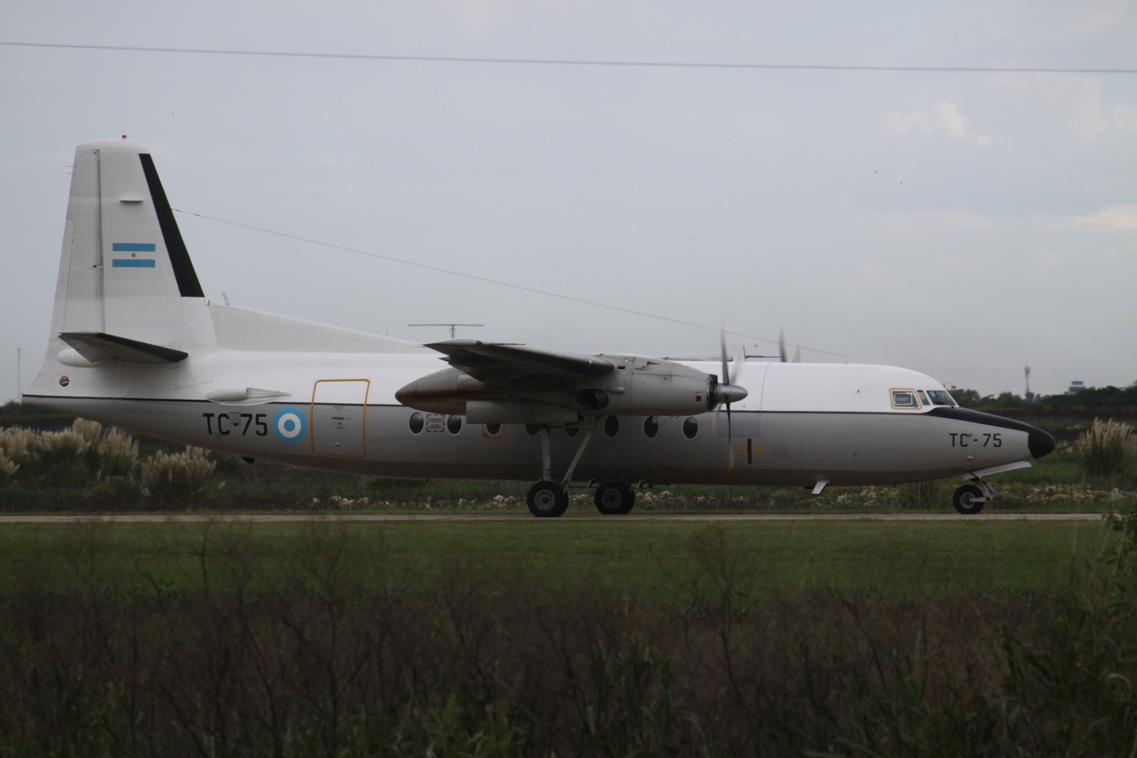 At El Palomar AFB